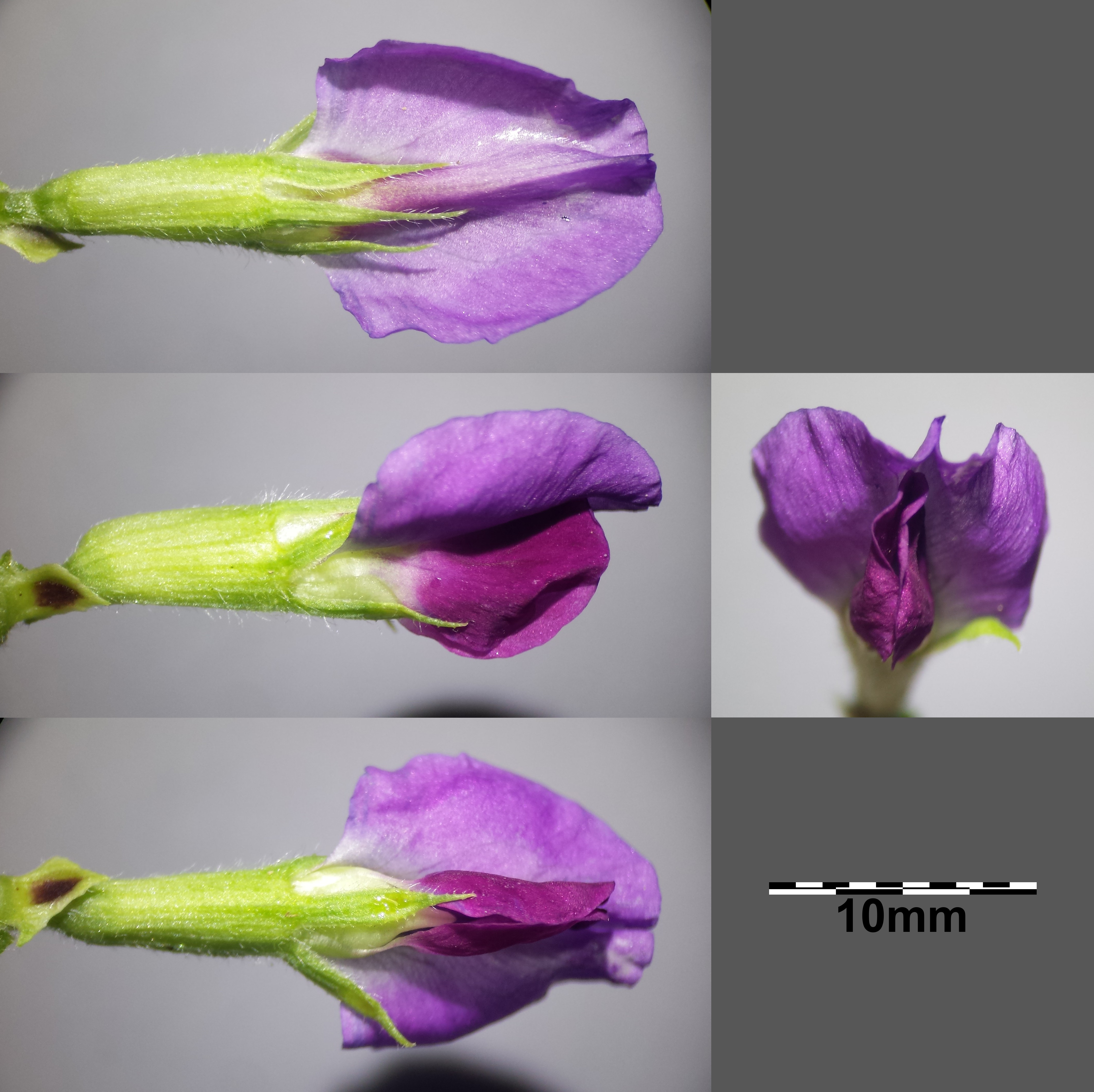 Flower Taxonym: Vicia sativa ss Fischer et al. EfÖLS 2008 ISBN 978-3-85474-187-9 Location: Altenberg north of Nursch, district Korneuburg, Lower Austria - ca. 350 m a.s.l. Habitat: grainfield (cultivated)